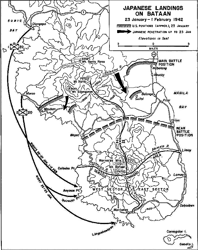 Map 13, titled Japanese Landings on Bataan 23 January - 1 February 1942.